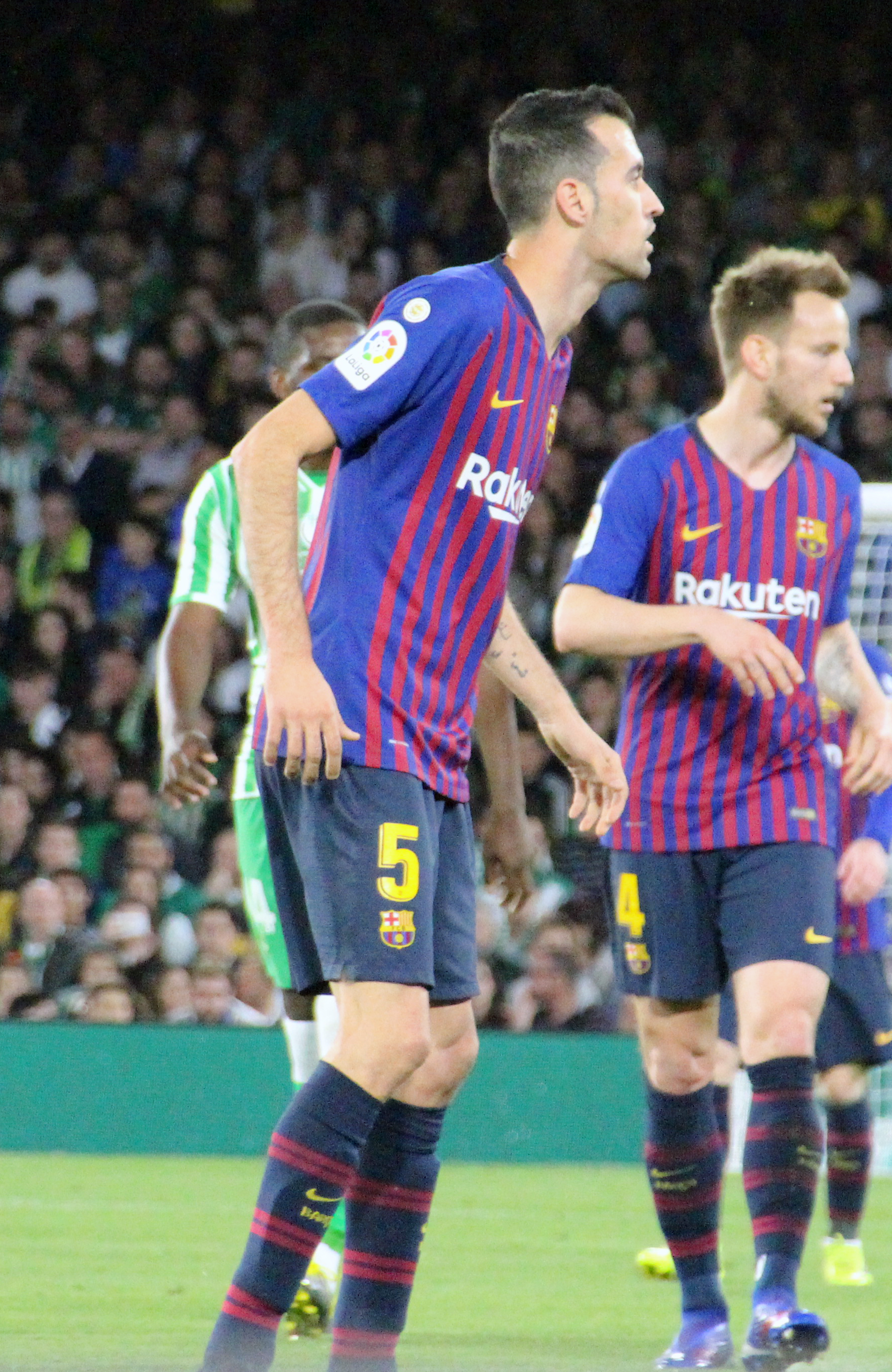 Sergio Busquets playing for FC Barcelona vs Real Betis, 17/03/2019